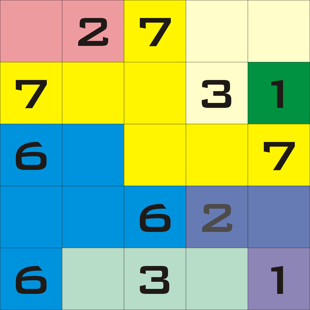 Solution of a Fillomino